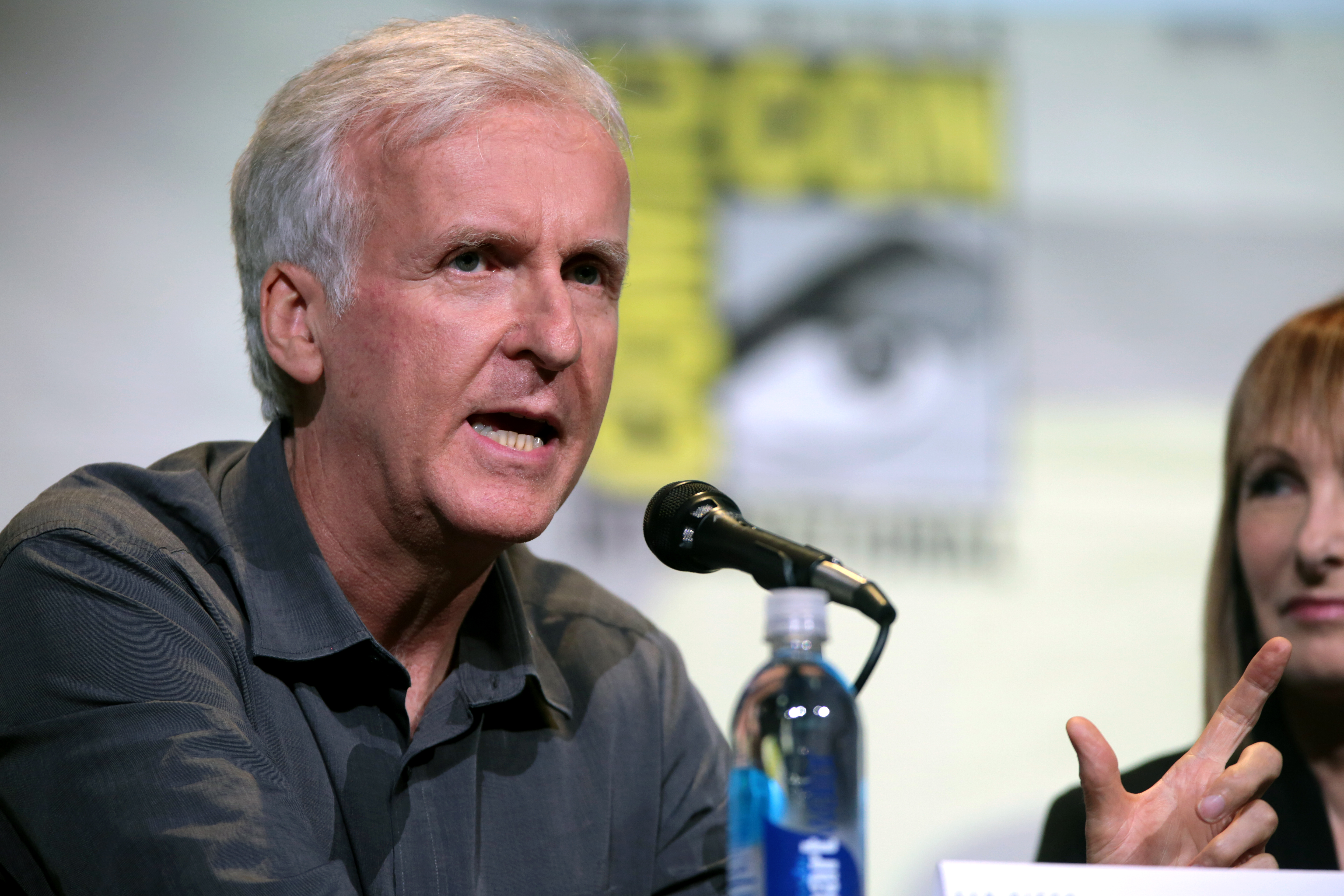 James Cameron speaking at the 2016 San Diego Comic Con International, for "Aliens: 30th Anniversary", at the San Diego Convention Center in San Diego, California.